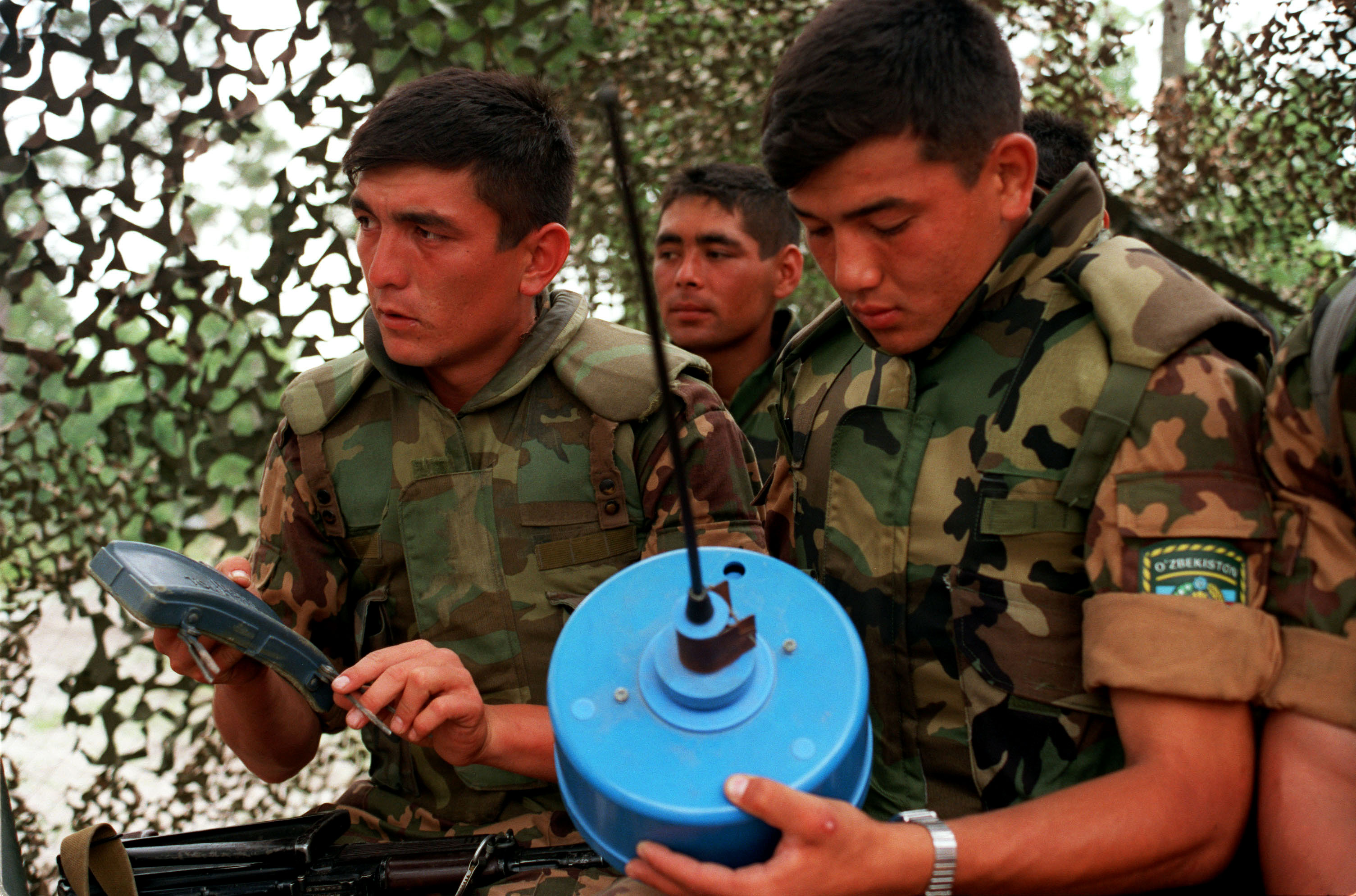 Uzbekistanian soldiers get a closer look at the types of mines and explosives they may encounter in the future as part of situational training during Exercise Cooperative Osprey '98 on June 5, 1998, at Marine Corps Base, Camp Lejeune, N.C. The soldiers are being taught the proper methods of identifying, marking, and reporting mines, unexplored ordnance, and improvised explosive devices. Cooperative Osprey '98 is a Partnership for Peace situational training exercise designed to improve the interoperability of NATO and partner nations through the practice of combined peacekeeping and humanitarian relief operations. Partner nations include Albania, Bulgaria, Estonia, Georgia, Kazakstan, Kyrgyzstan, Latvia, Lithuania, Moldova, Poland, Romania, Ukraine, and Uzbekistan. Participating NATO nations include Canada, The Netherlands, and the United States.